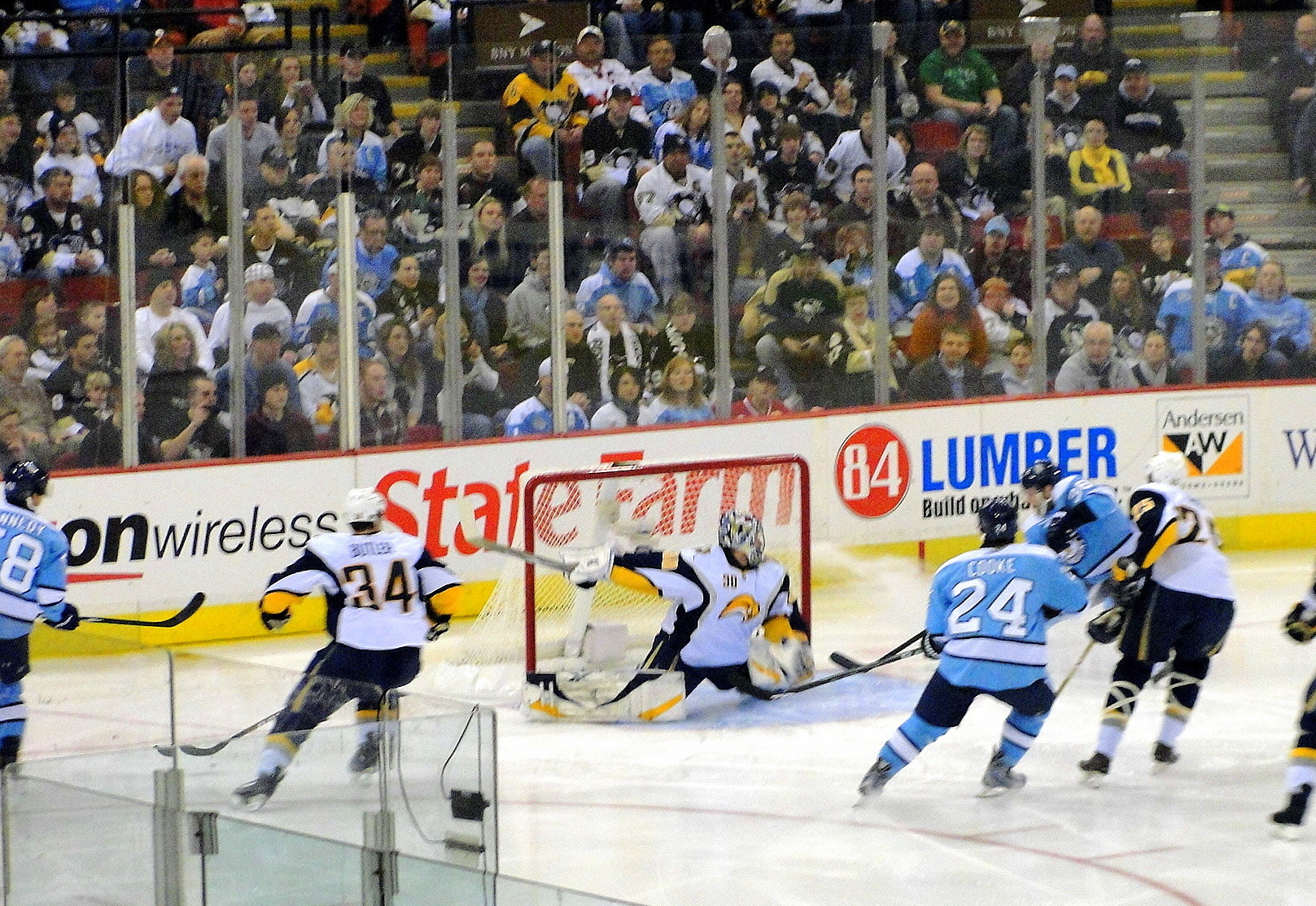 Mark Letestu scores his first NHL goal in a game against the Buffalo Sabres, February 1, 2010 at Mellon Arena in Pittsburgh, PA.